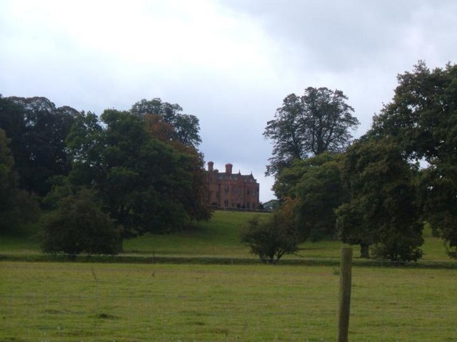 Aqualate Hall A view of Aqualate Hall from the edge of the Mere